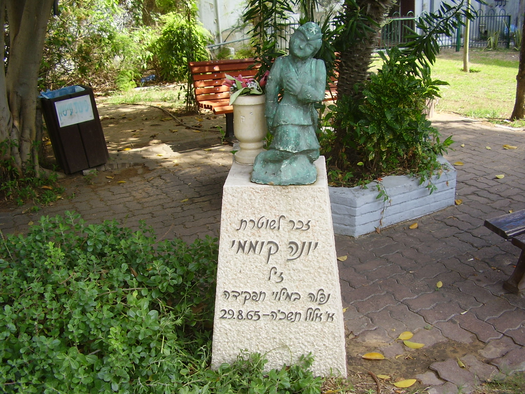 Memorial to Policewoman Yona Kumami in Ramat Gan Police Station